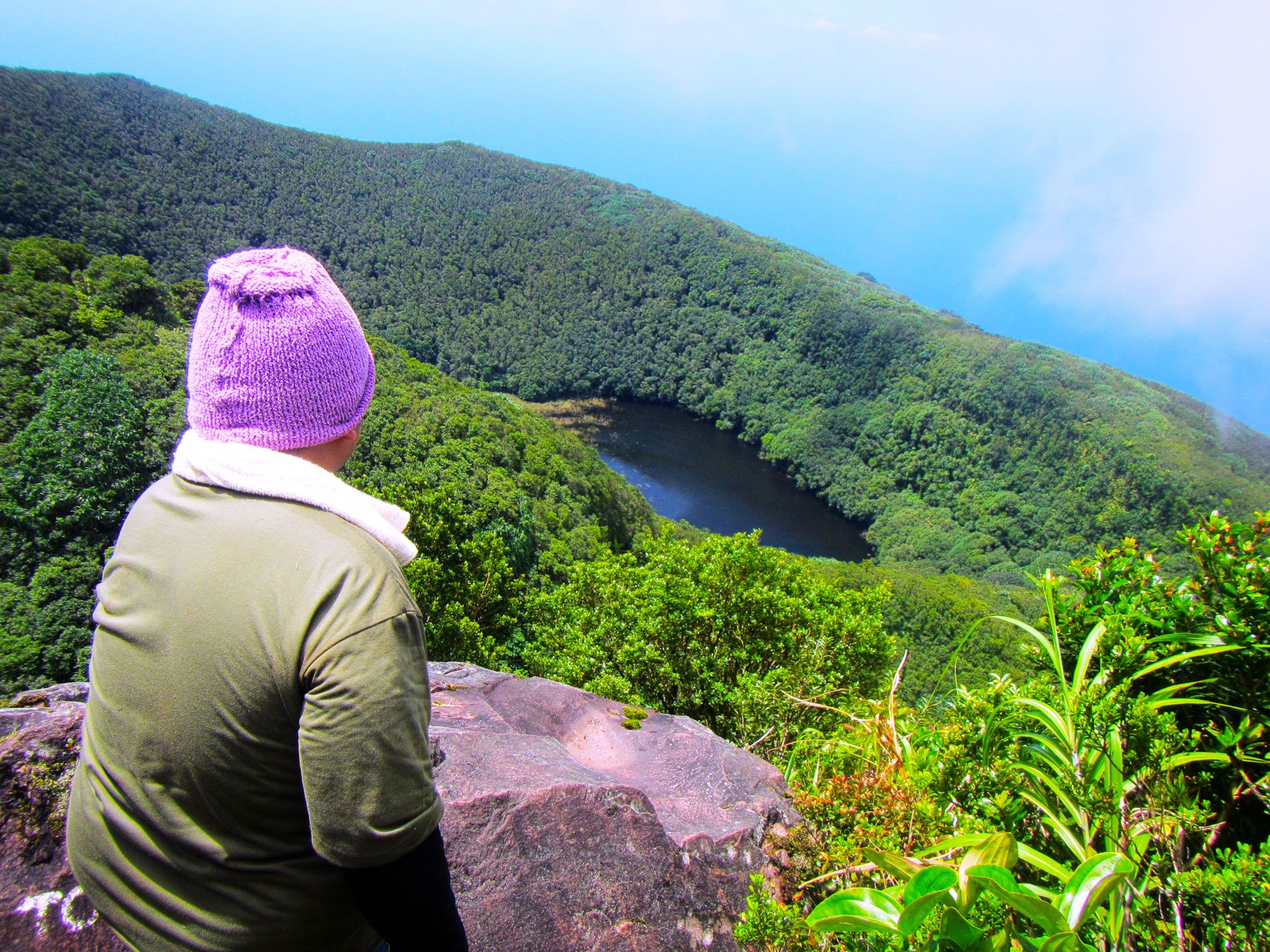 Via Yumbing Trail of Hibok-Hibok Volcano, you can pass by its crater and can be used as a camp site for an overnight trek. This shot was taken at 1237MASL after leaving the crater premises and moving onward to the volcano's highest viewpoint at 1332MASL. Shot by Schadow1 Expeditions during its mapping expedition of the volcano last 2013.